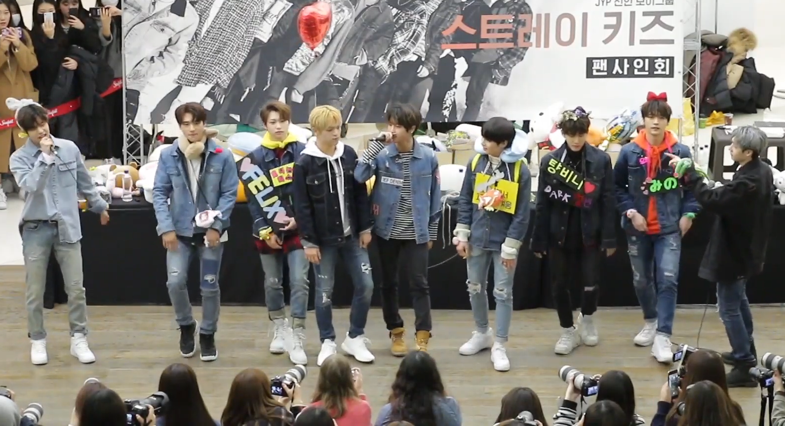 Stray Kids at a fan signing in the COEX Live Plaza